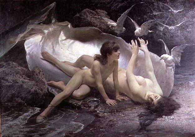 The Naiadstitle QS:P1476,en:"The Naiads" label QS:Len,"The Naiads"